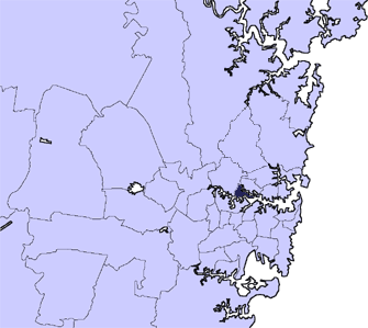 Locator Map Hunters Hill lga sydney.png Based on Image:Ku-ring-gai sydney.png by User:Randwicked.